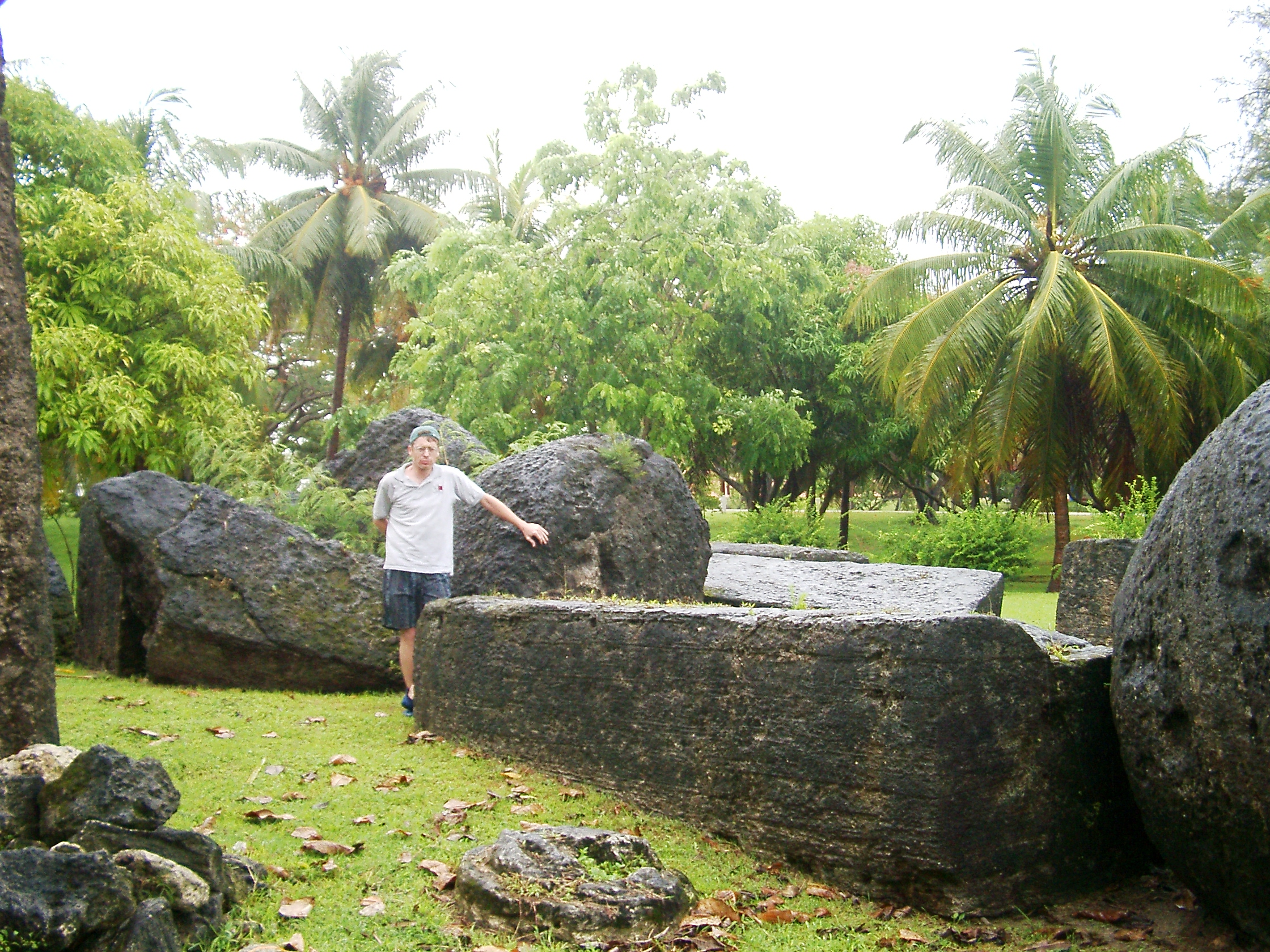 Fallen latte stones at Taga House, Tinian, Marianas Islands with adult male figure for scale